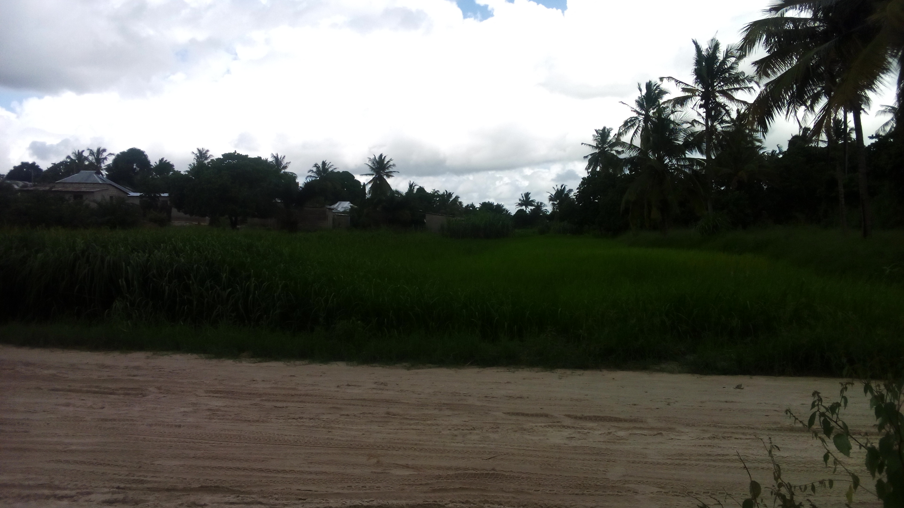 The area is widely known as Rice Valley - Chanika, Dar es Salaam, Tanzania.I have taken this photo using my Tecno W3 mobile.